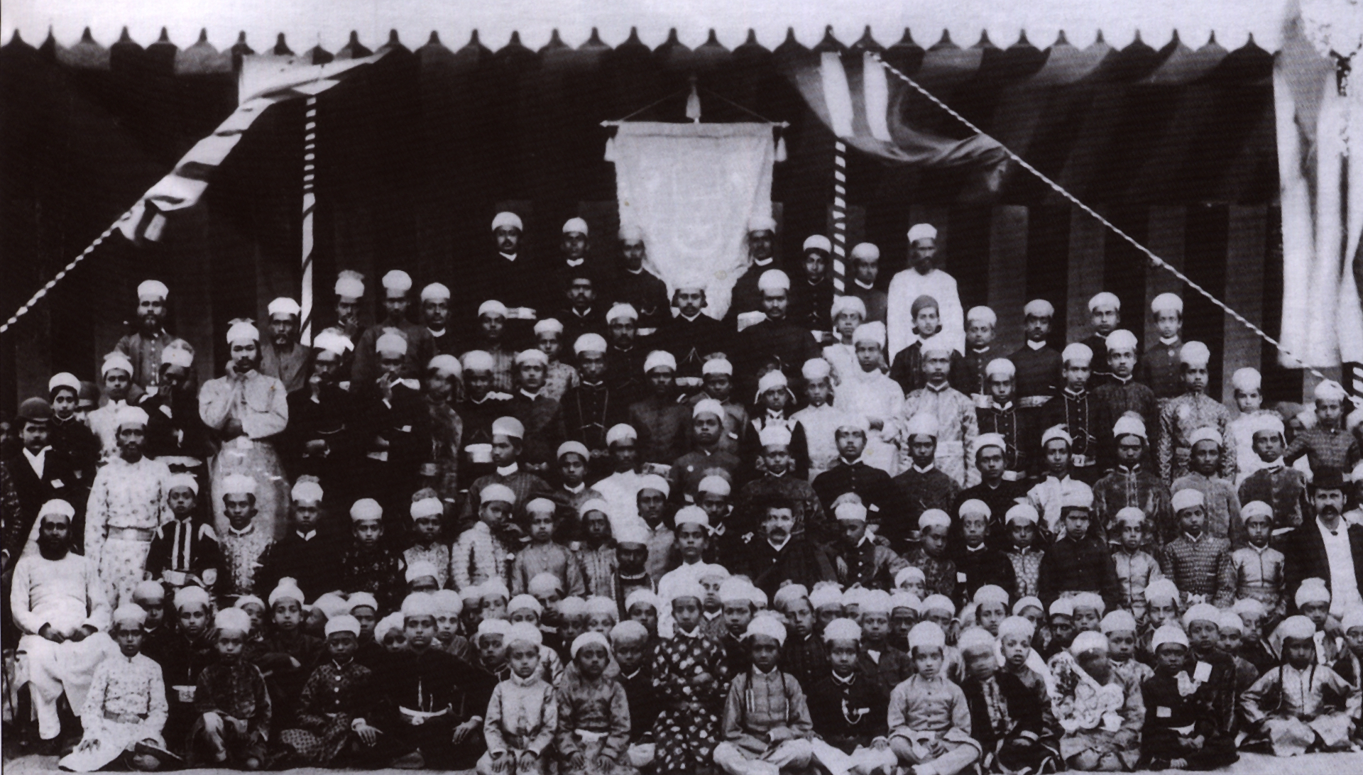 Staff and students of the Nizam's College (Hyderabad, Deccan), the only institute of higher education in the city at that time, reserved for sons of the local gentry.